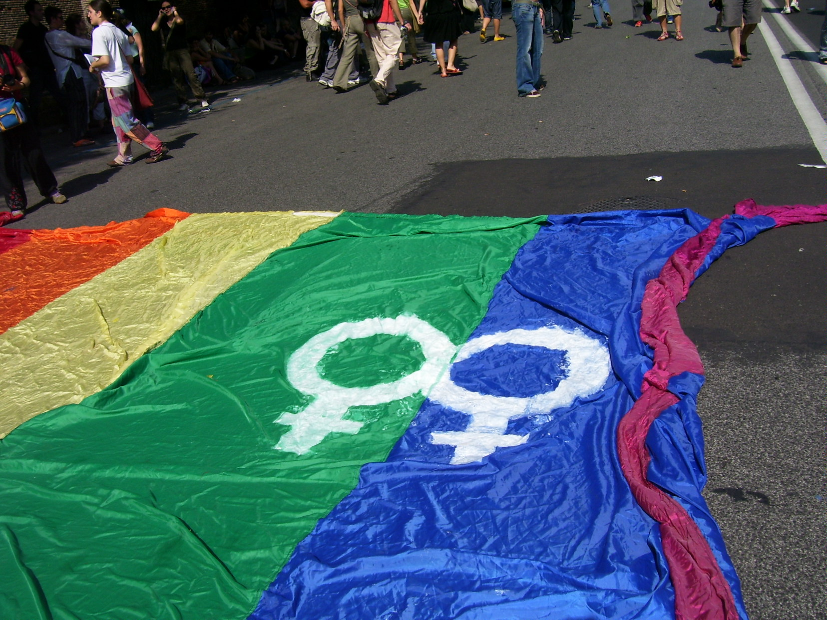 Lesbian symbols at the National Gay Pride march in Rome, on June 16 2007. Picture by Dedda71.